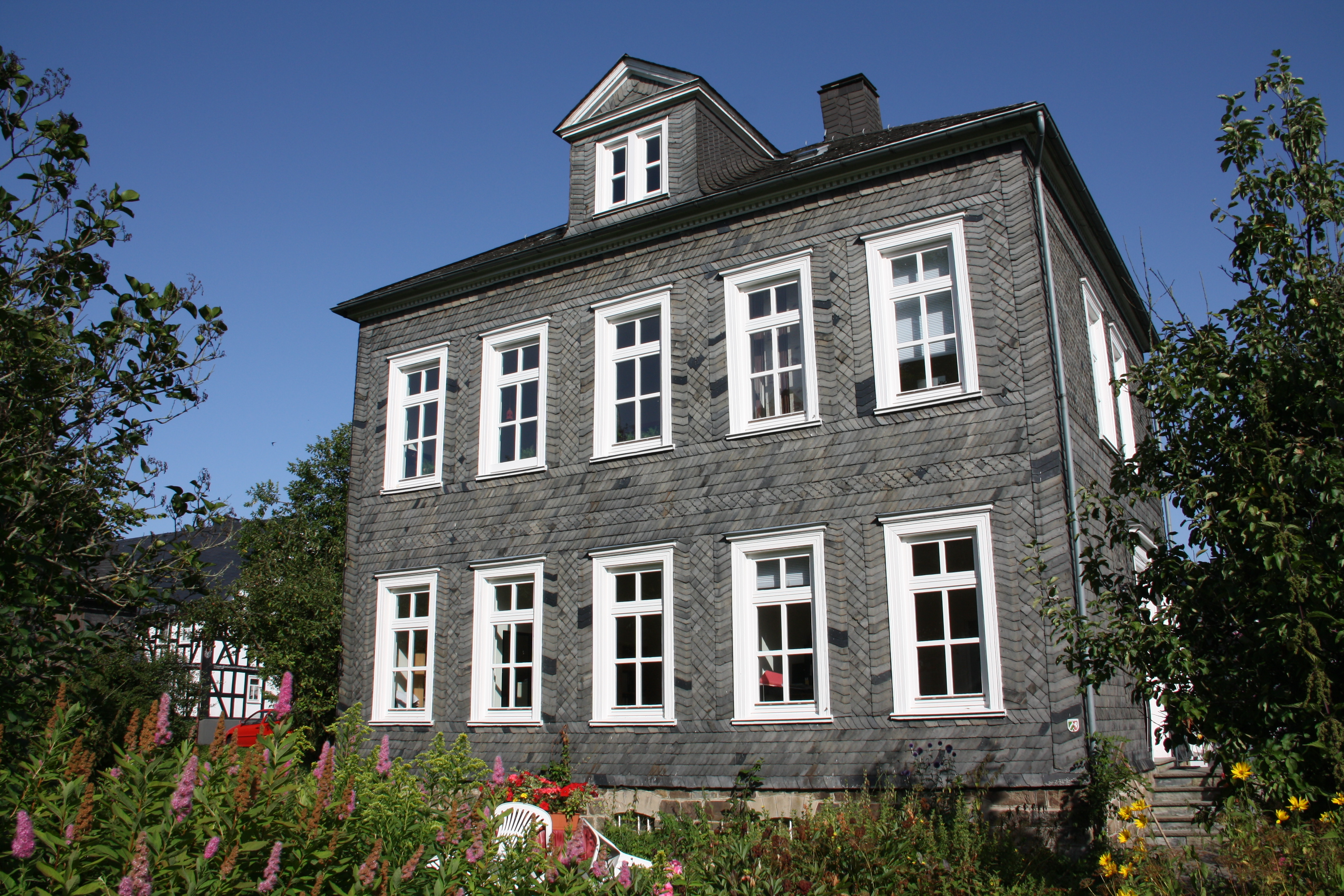 Cultural heritage monument in Bad Berleurg